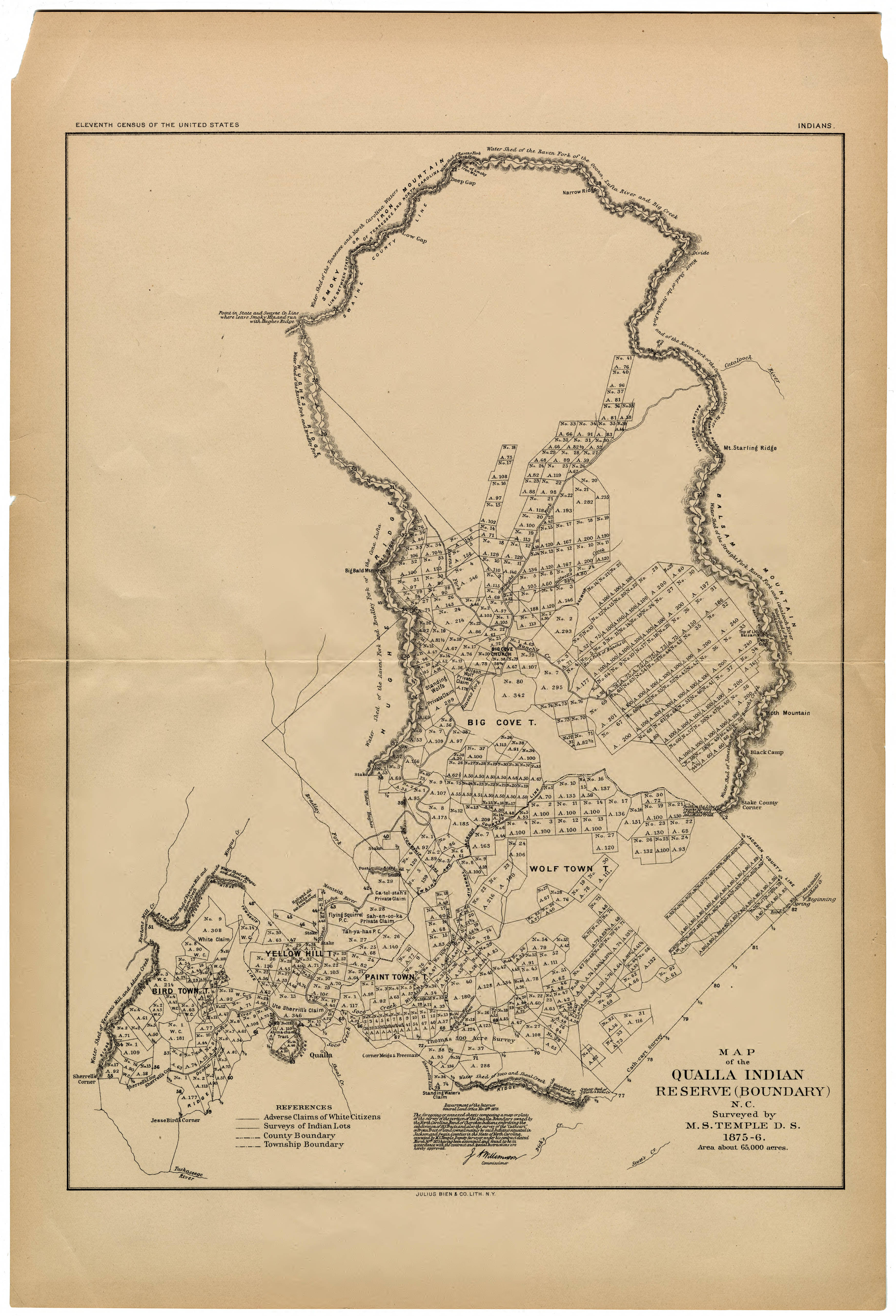 Map of the Qualla Boundary